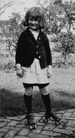 Young girl in Roller-skates, Bay St. Louis, Mississippi, 1921.